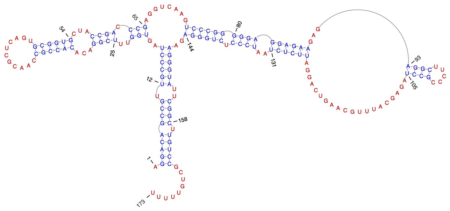 This figure shows the consensus secondary structure of the Epstein-Barr virus encoded small RNA (EBER) 2 molecule.